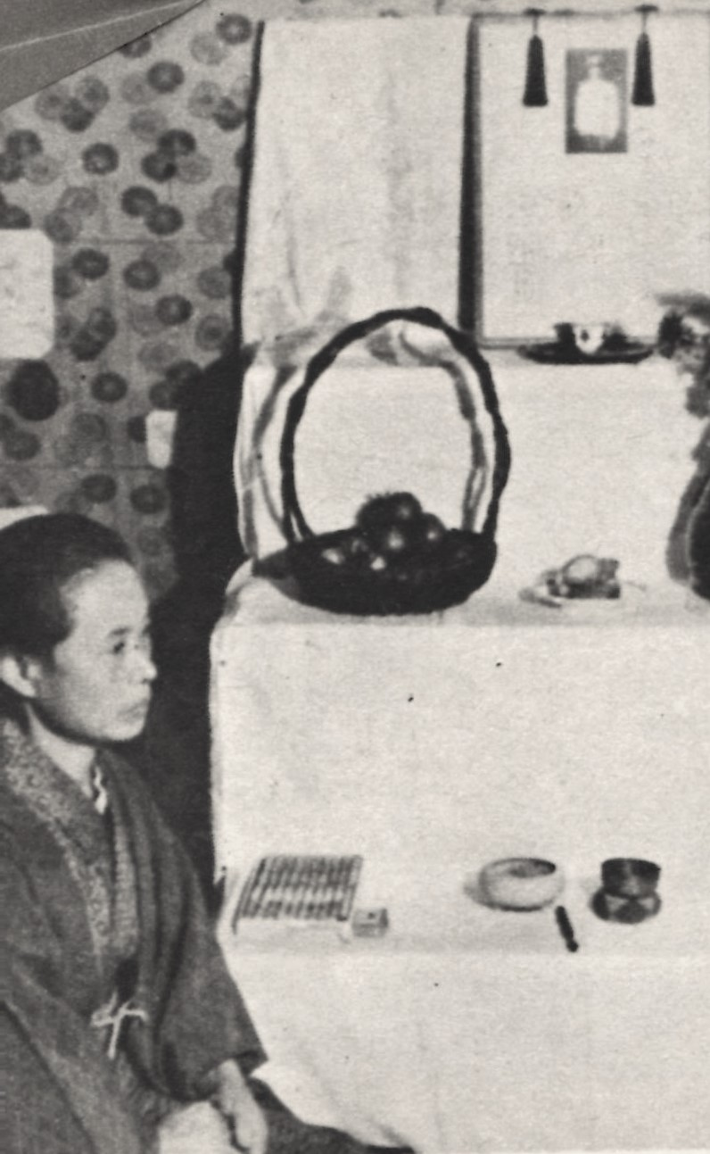 Sakae seki November 11, 1944